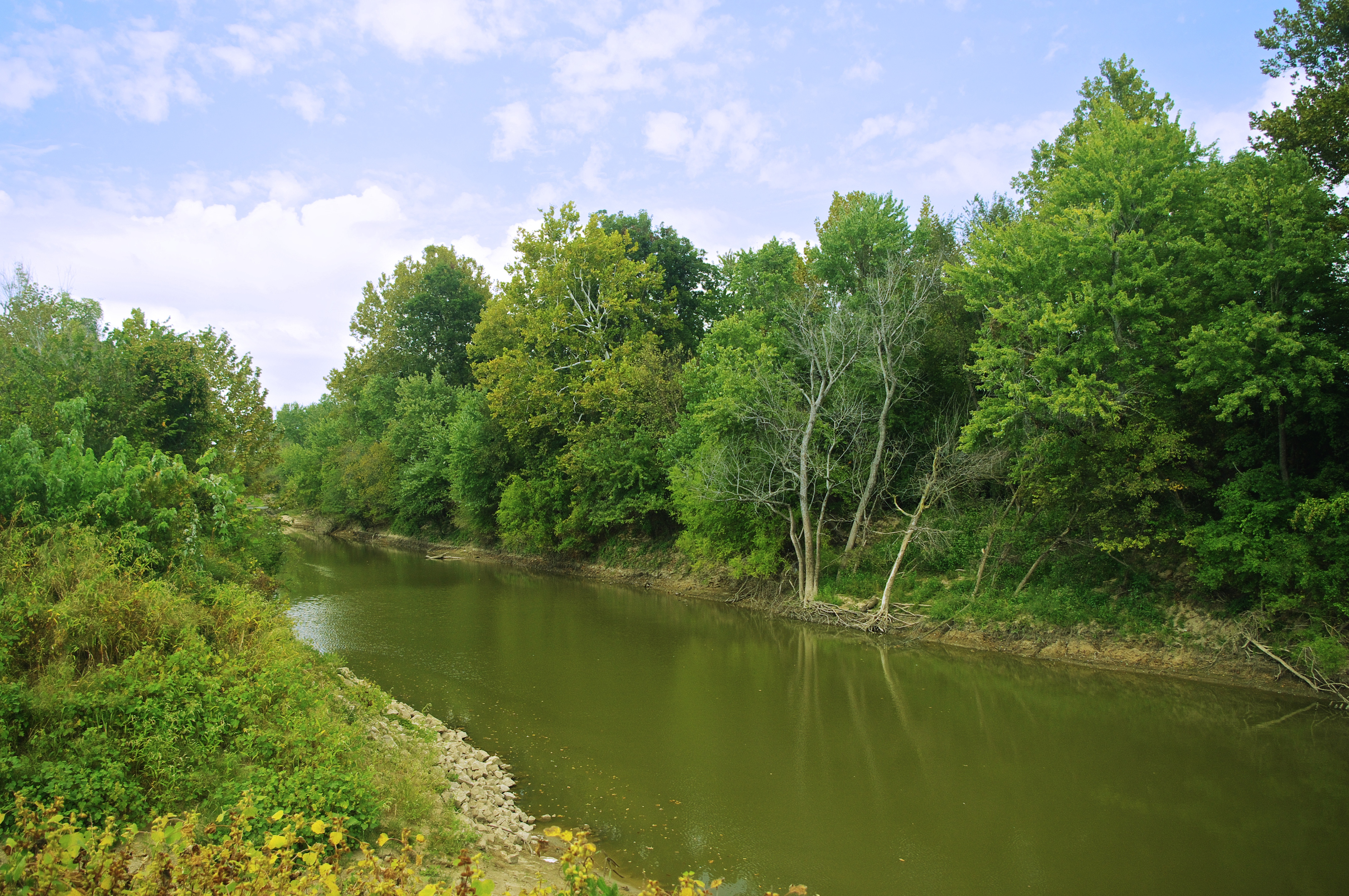 The St. Francis River, on the border between Arkansas and Missouri, viewed from St. Francis, Arkansas, United States.